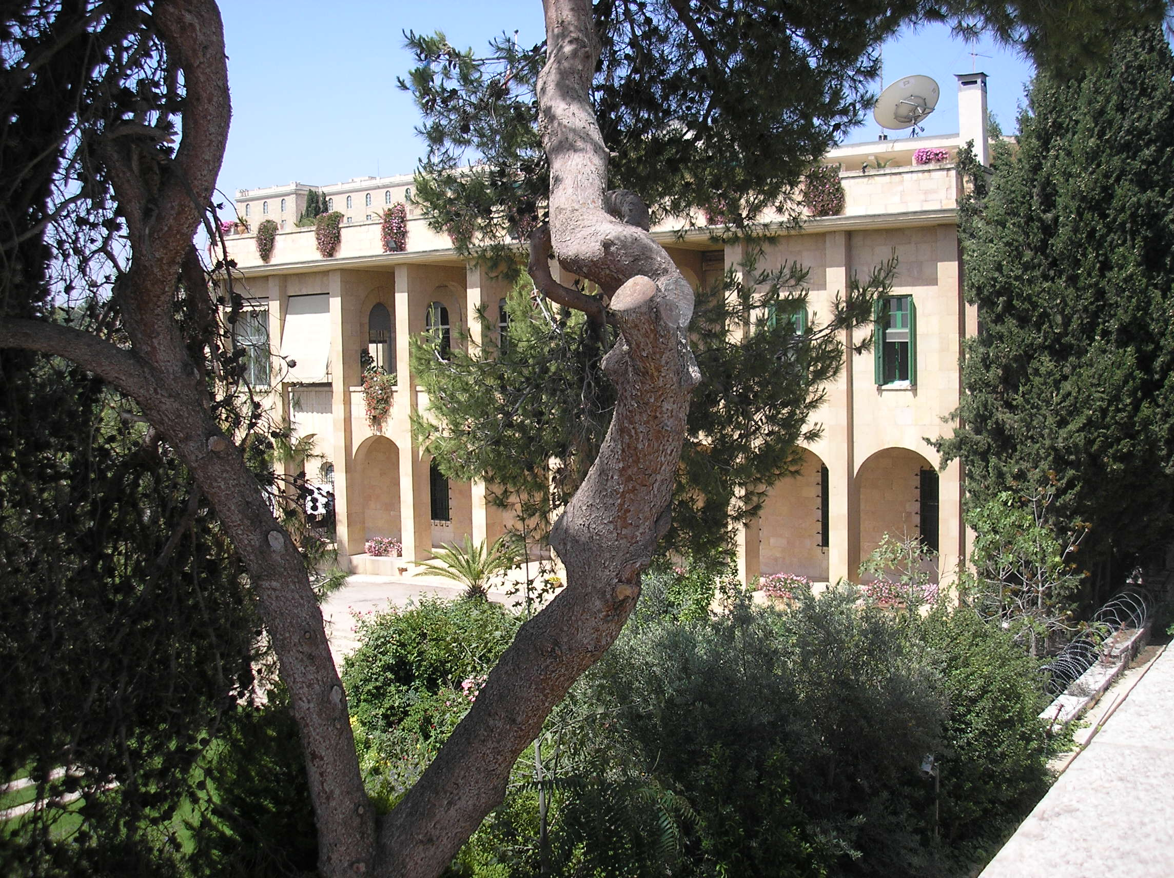 French Consulate